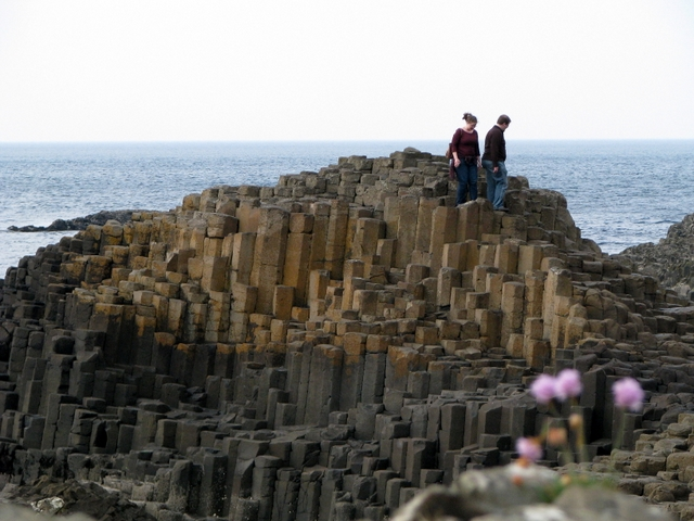 Giant's Causeway [1] Looking out over the famous basalt rocks towards the Atlantic Ocean beyond.